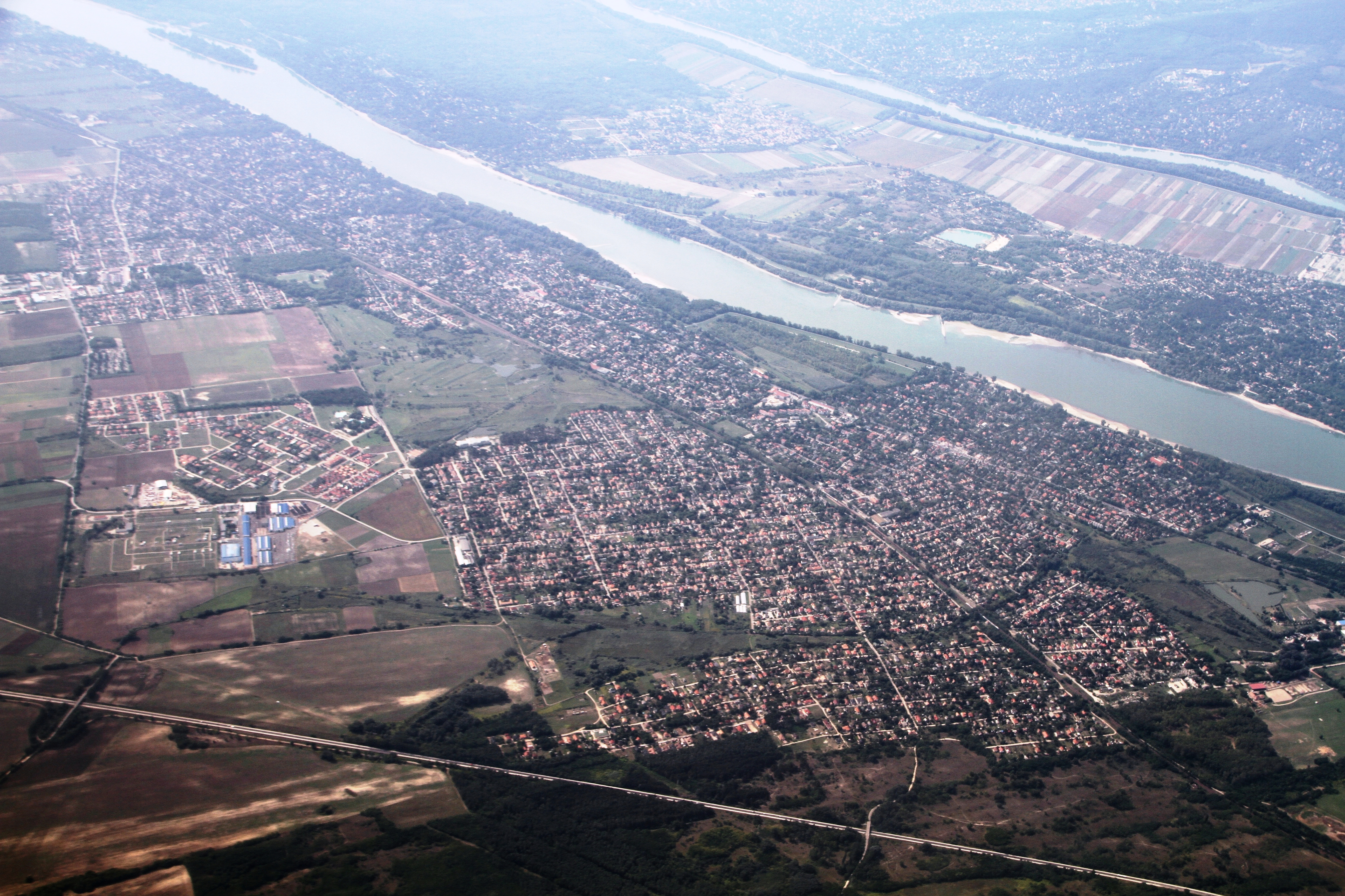 The city of Göd on the eastern side of the Donau, right North of Budapest, Hungary